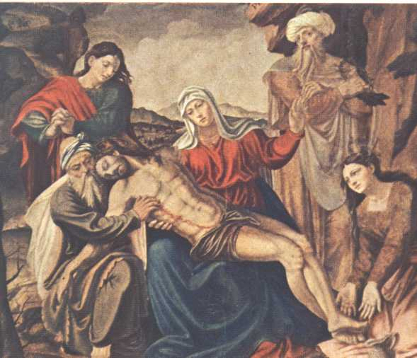 The Deposition